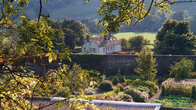 Walled garden at Scargill House near to Kettlewell, North Yorkshire